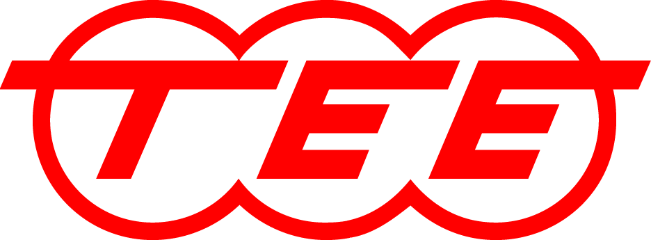 Trans Europ Express logo used by various European railways since 1957